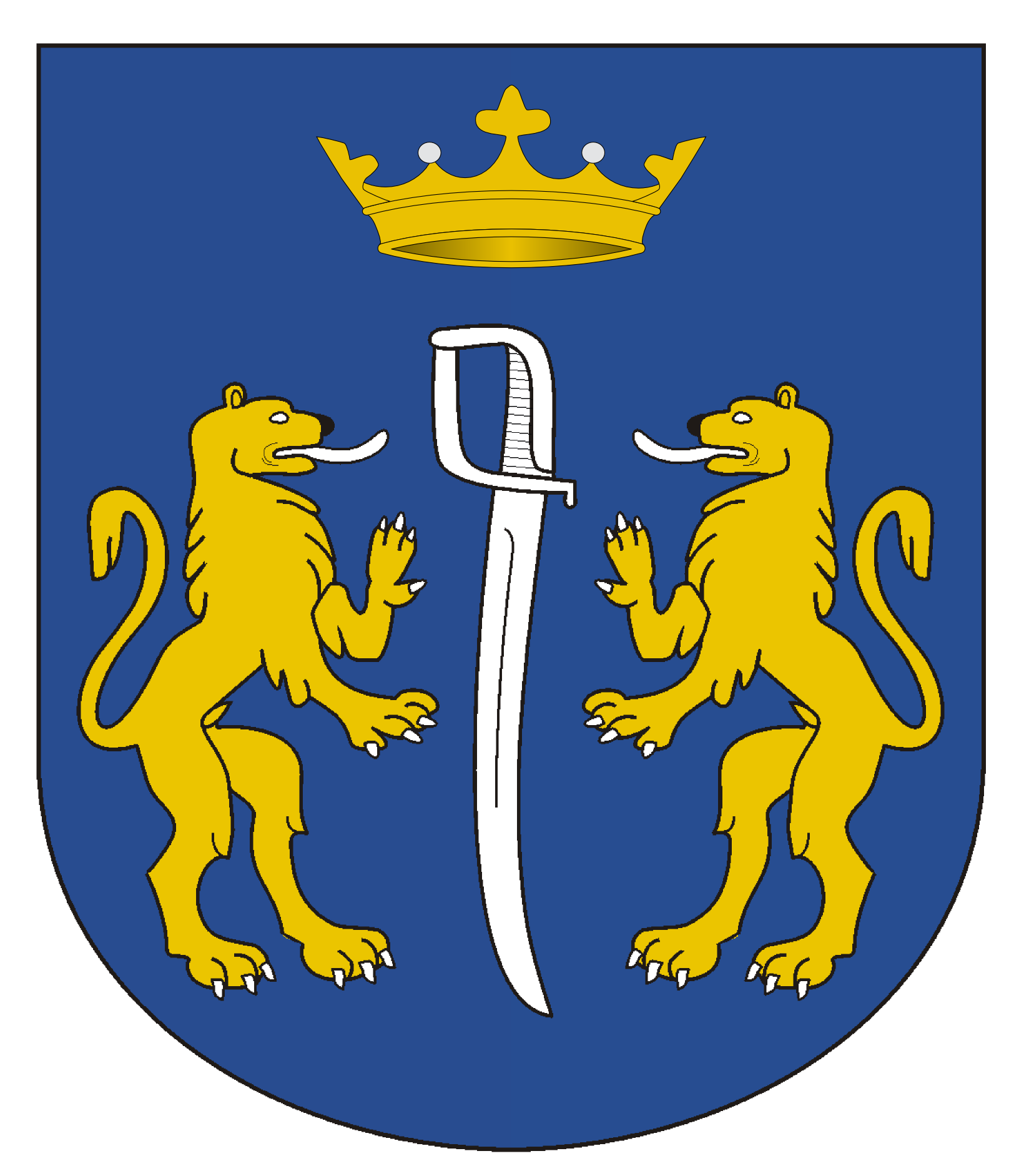 Coat of arms of Podbiel (Slovaka)